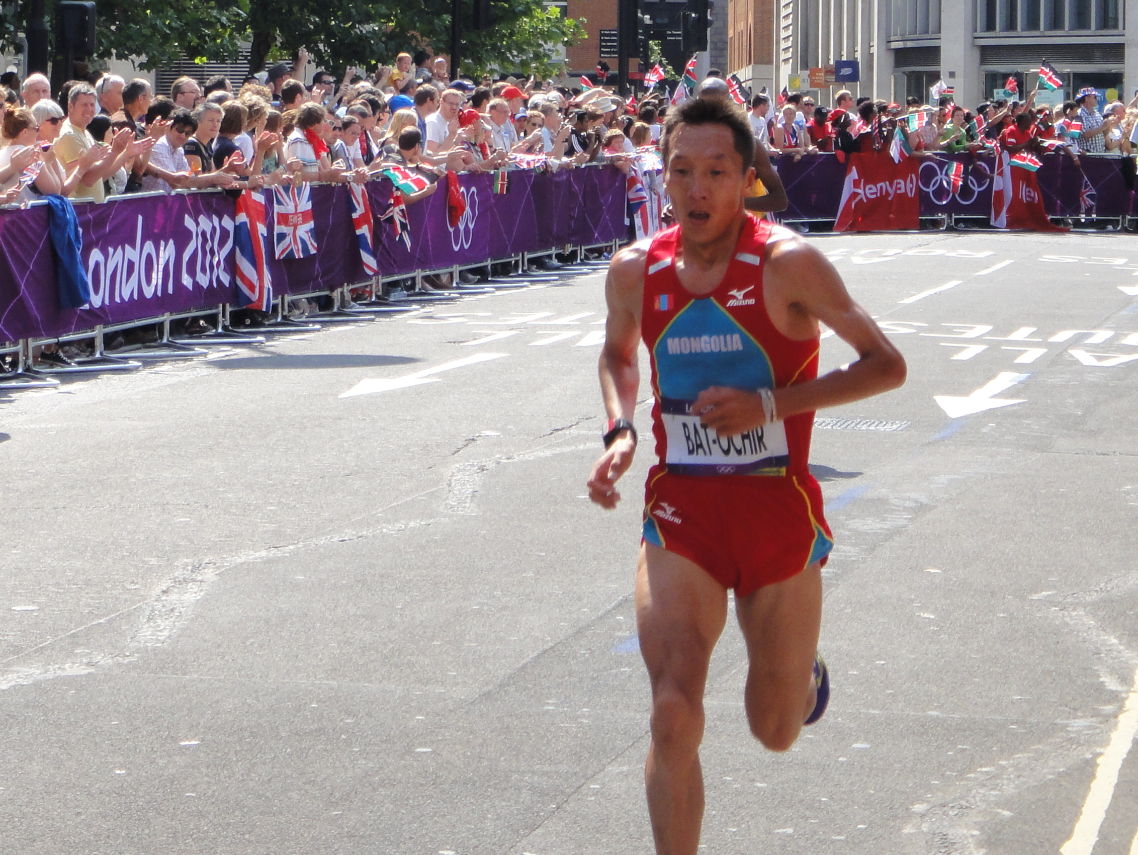 Ser-Od Bat-Ochir (Mongolia) - London 2012 Men's Marathon